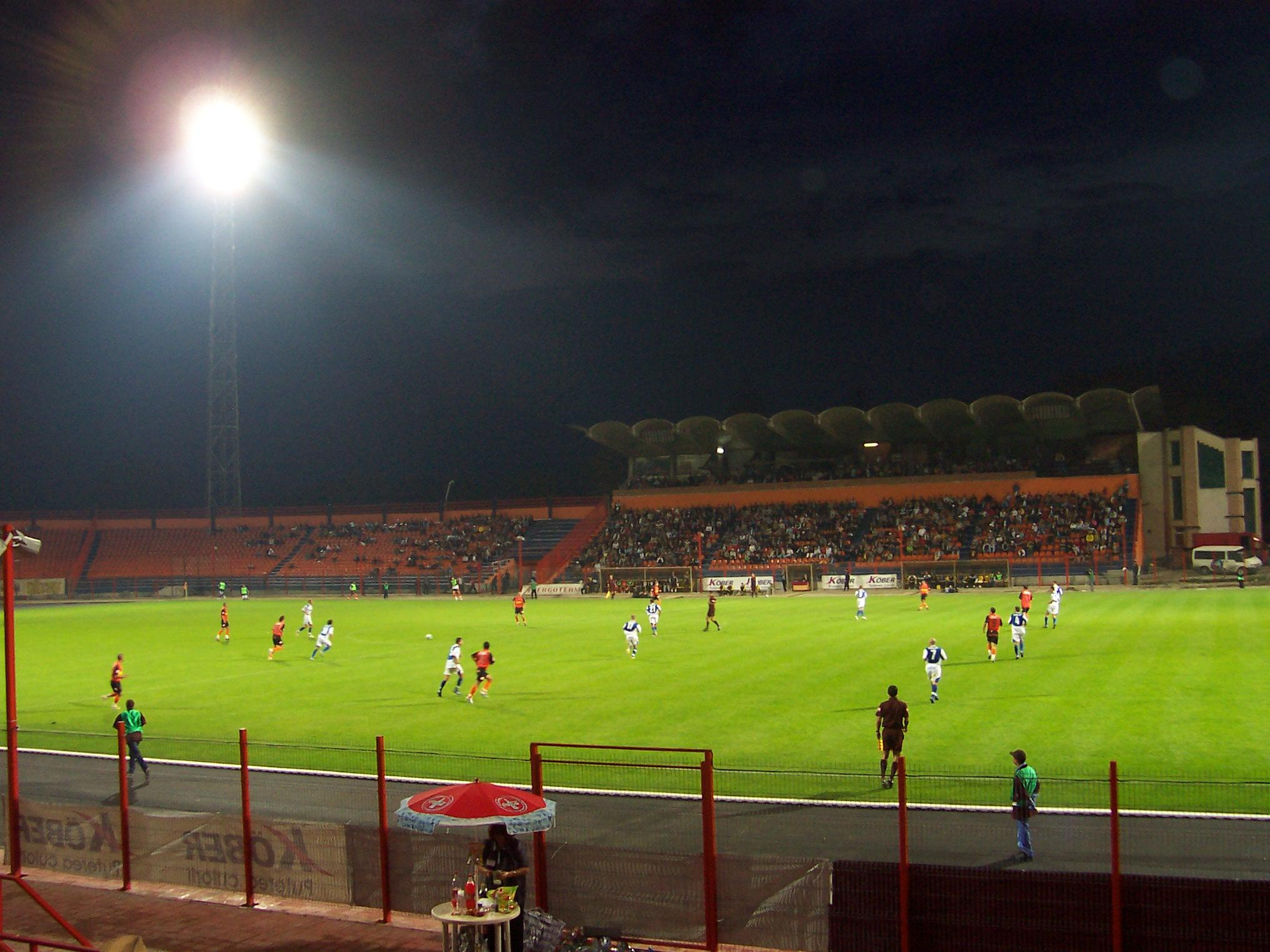 Cristibur 17:57, 20 September 2006 (UTC)